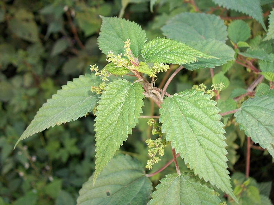 Laportea peduncularis (subsp. peduncularis?) from Karkloof area, KwaZulu-Natal, South Africa.